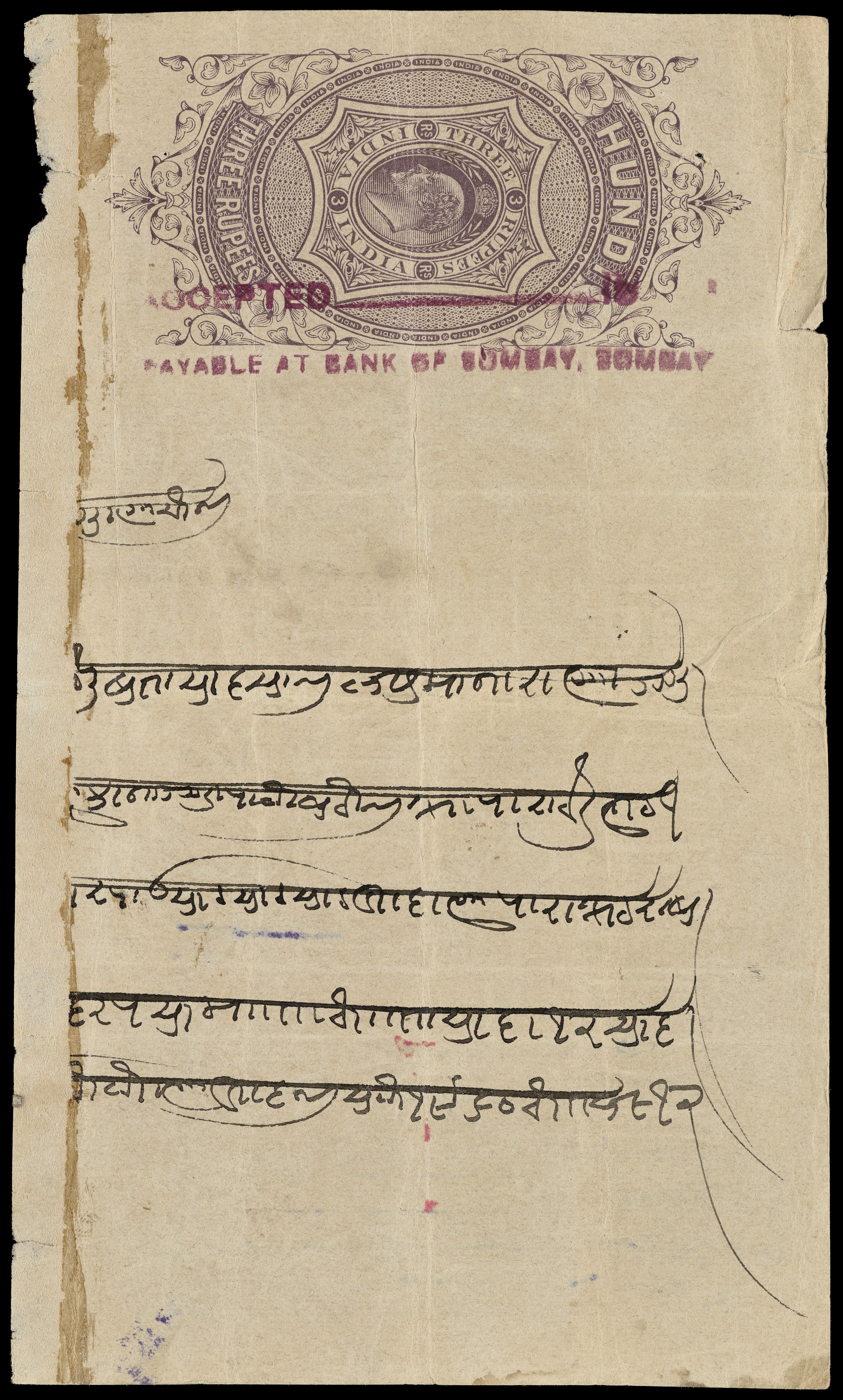 Mandsaur Opium Agency Hundi (or trade voucher) for an amount of opium (in this instance 27 cheets), dated 9 April 1903. A type of bill of exchange raised by an Indian merchant to finance trade. The Mandsaur Opium Agency certified the value of the farmer's opium crop, the hundi was sold to the Bank of Bombay who would have been reimbured in due course upon sale of the opium. It has an engraved duty stamp of 3 rupees and the profile of Edward VII in purple. General Collections Keywords: Opium